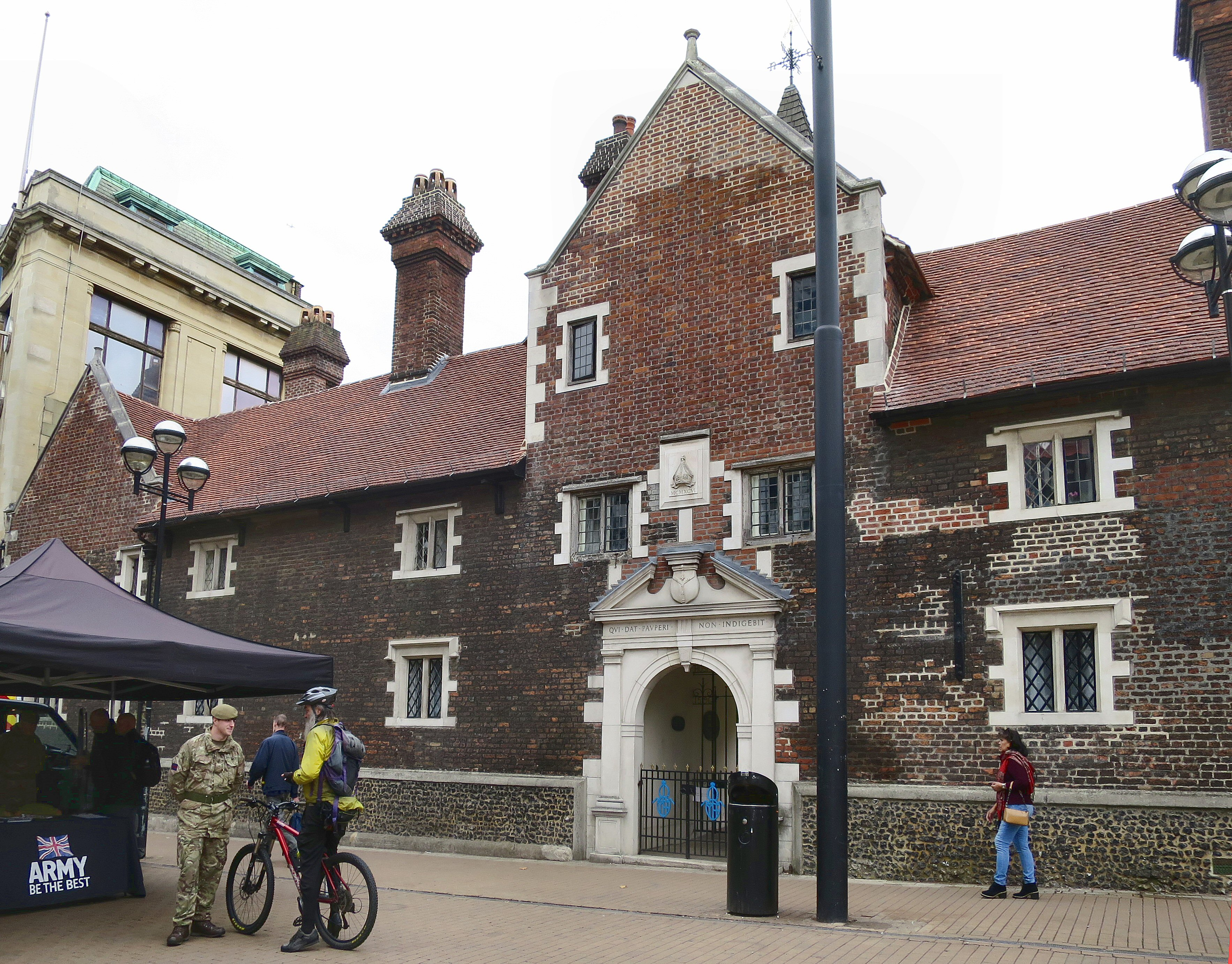 Photo of the entrance to the almshouses, from North End, Croydon. § Links to a short video (2014) about the history of the Whitgift Almshouses in Croydon. Posted on YouTube and also on the Whitgift Foundation website. The film is by Sam Gee and was narrated by Almshouses resident Margaret Dickens, script written by Almshouses resident David Gilbert. § The Latin text above the entrance is: "Qui dat pauperi non indigebit qui despicit deprecantem sustinebit penuria" Translated in the King James bible as: "He that giveth unto the poor shall not lack: but he that hideth his eyes shall have many a curse.